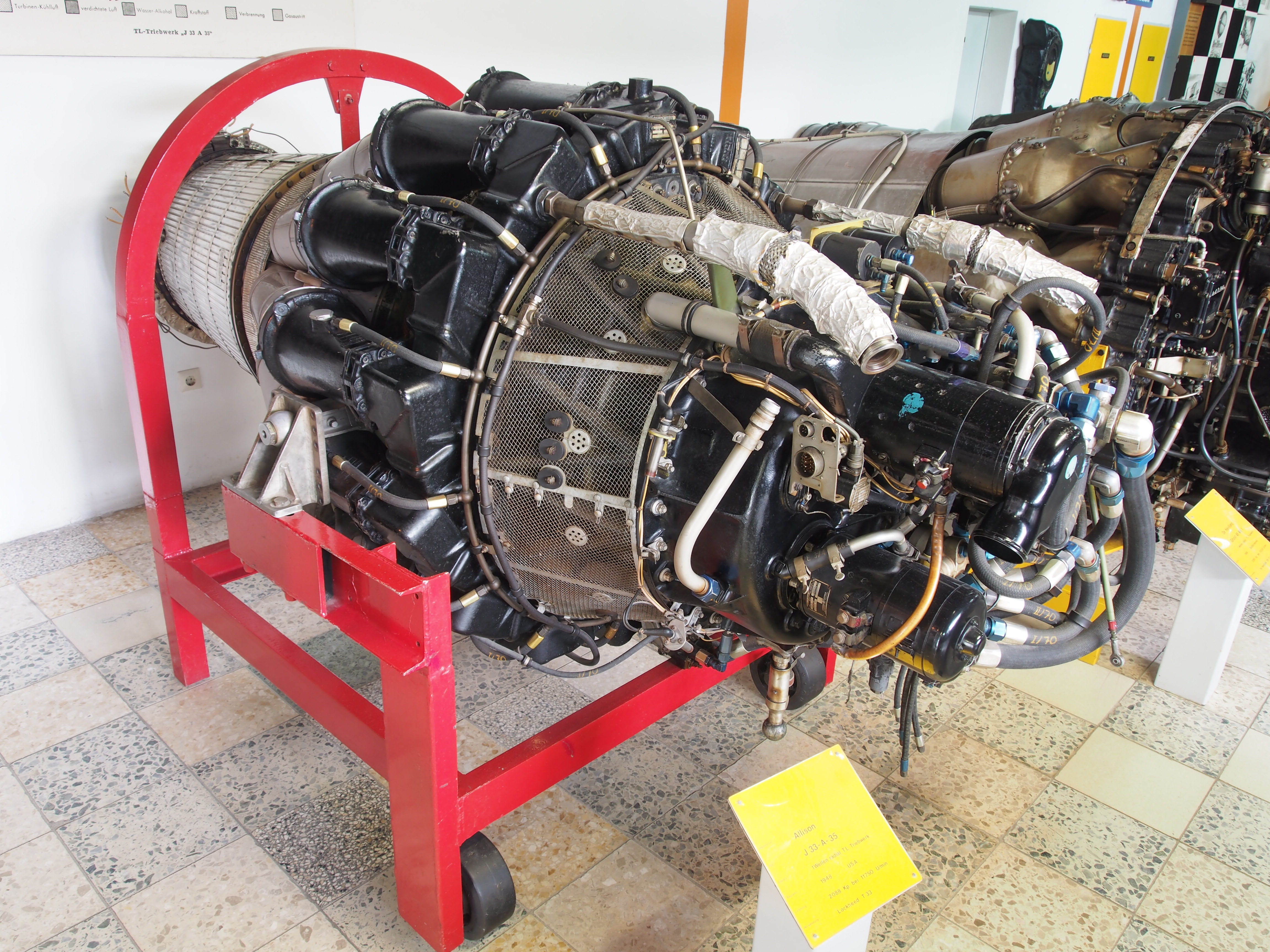 Photographed at Flugausstellung L.+P. Junior, Hermeskeil, Germany.